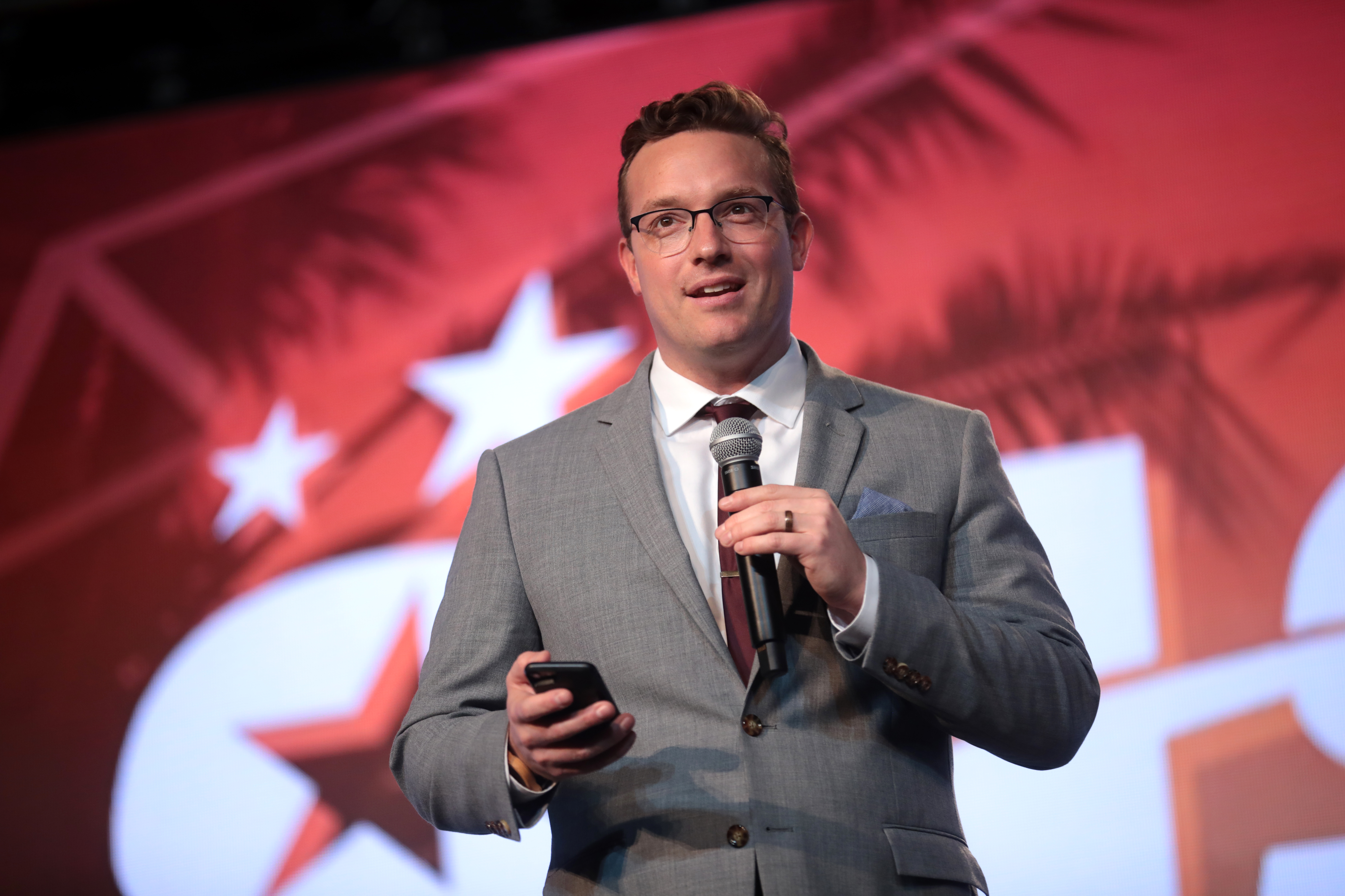 Benny Johnson speaking with attendees at the 2018 Student Action Summit hosted by Turning Point USA at the Palm Beach County Convention Center in West Palm Beach, Florida.